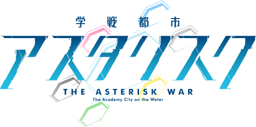 The Asterisk War logo